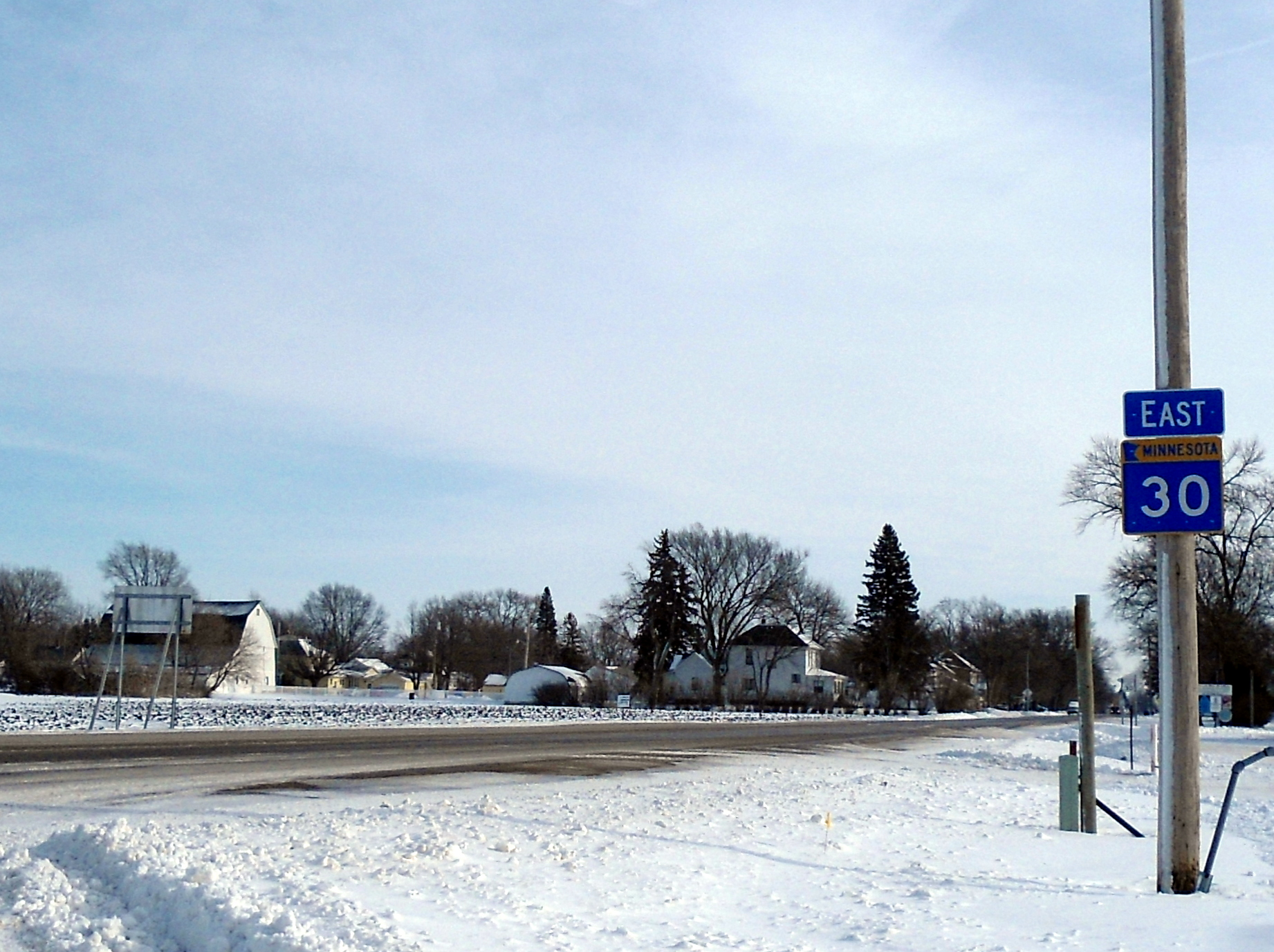 MN 30 runs east into downtown Amboy, MN.